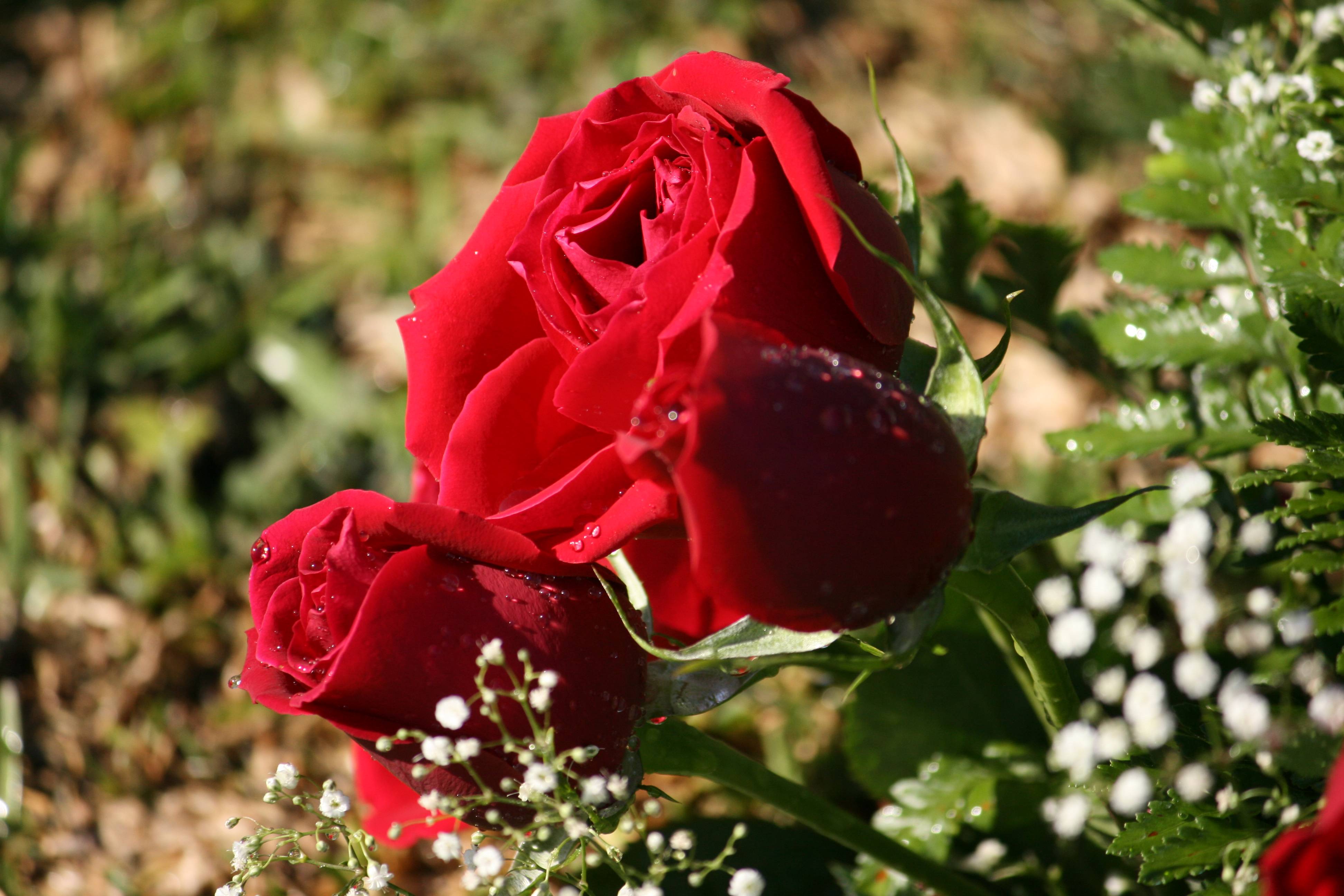 Red Roses By Sasukekun22